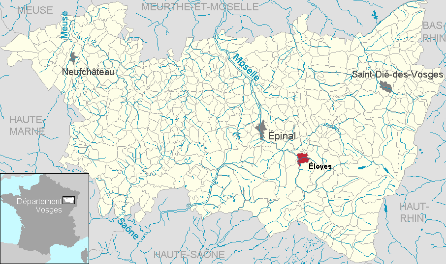 Éloyes in the department of Vosges, Lorraine, France